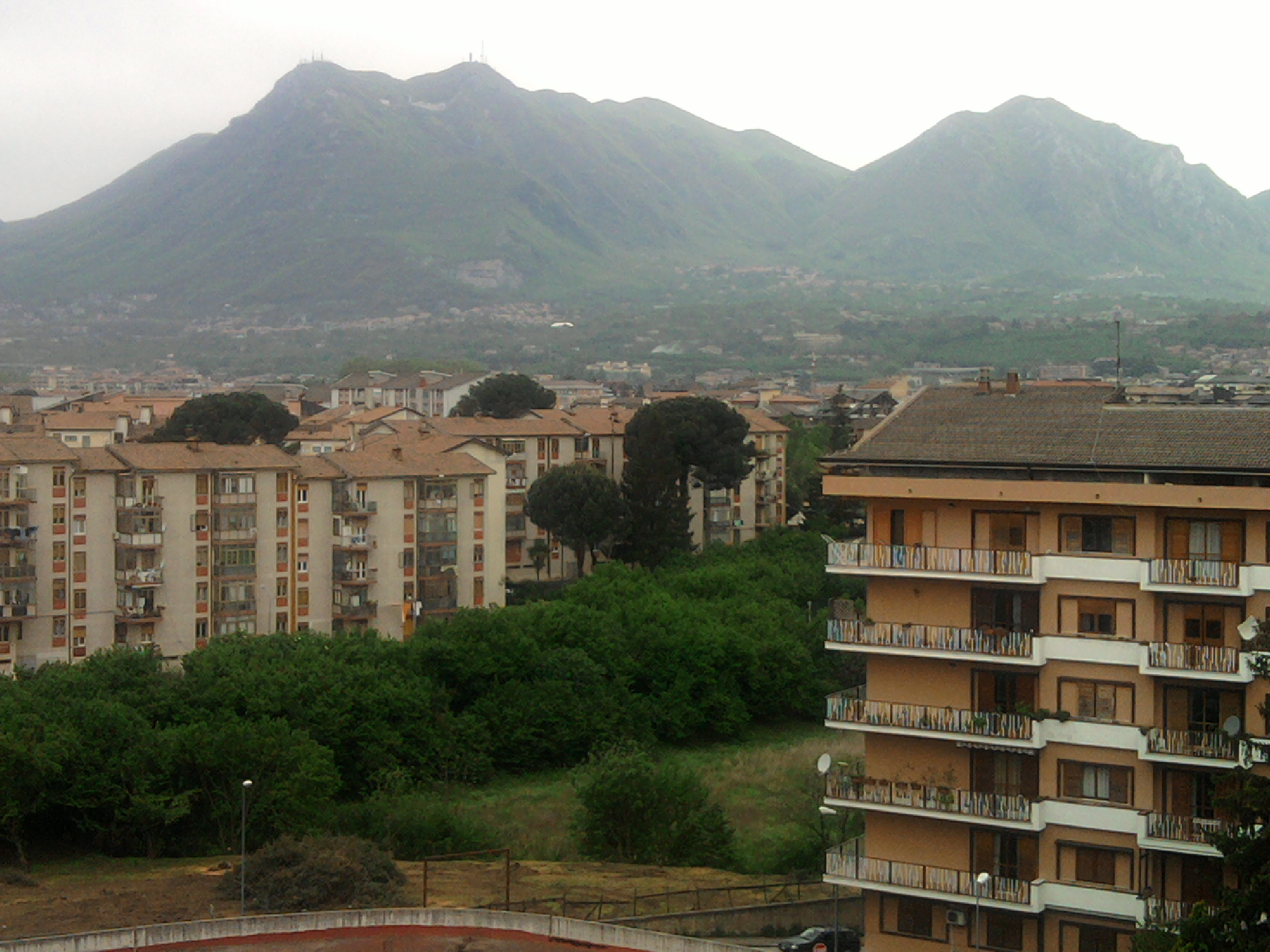 Montevergine visto da Avellino